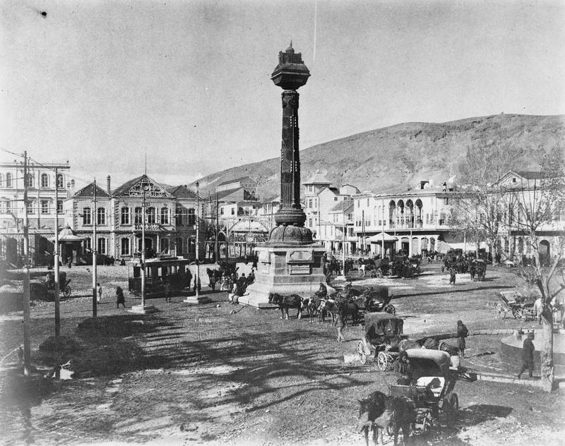 T E Lawrence and the Arab Revolt 1916 - 1918 Hejaz Railway - Damascus square and pillar. The gabled building is the Hejaz Railway Line office.